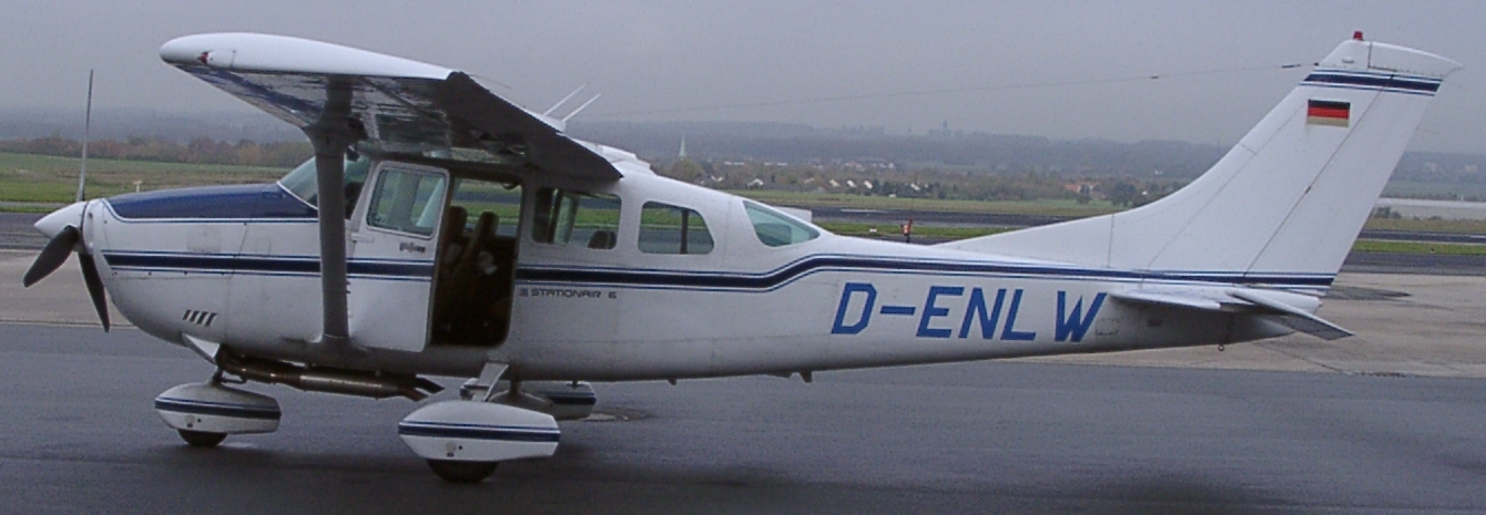 Aircraft: Cessna U 206 Stationair Airline: Luftfahrtgesellschaft Walter mbH (LGW) Registration: D-ENLW Location: Dortmund Airport, Germany